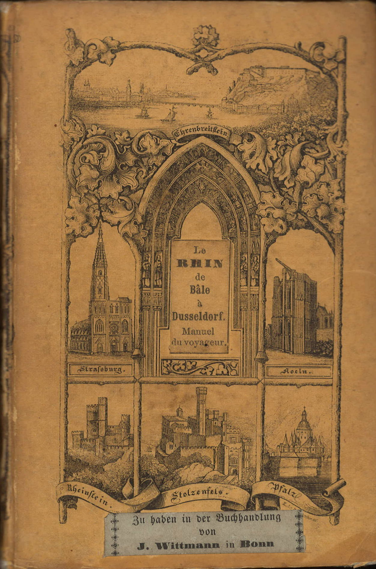 Front cover of 1852 Baedeker travel guide of the Rhine (french language, Le Rhin), Biedermeier-Style, F 3